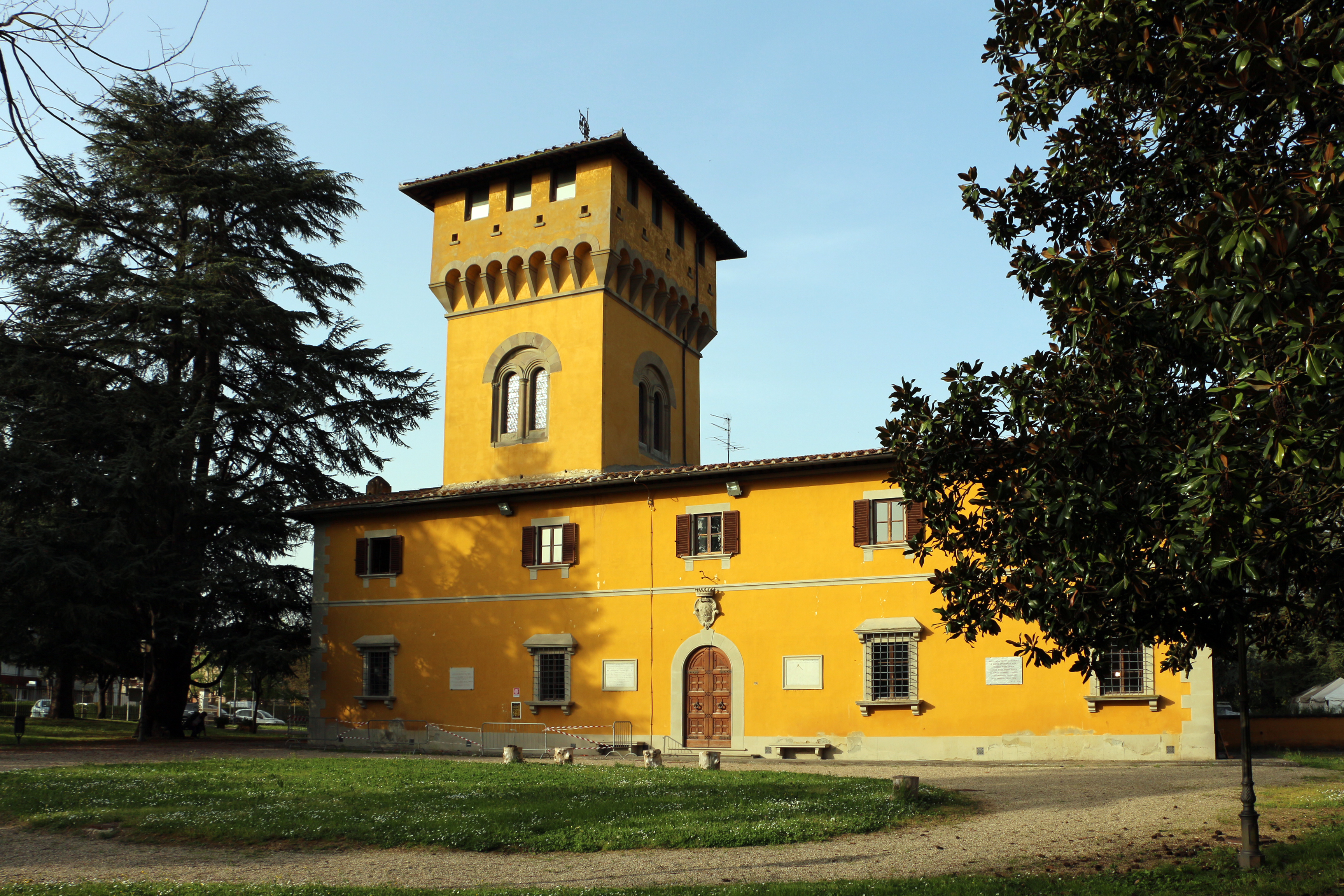 Borgo San Lorenzo